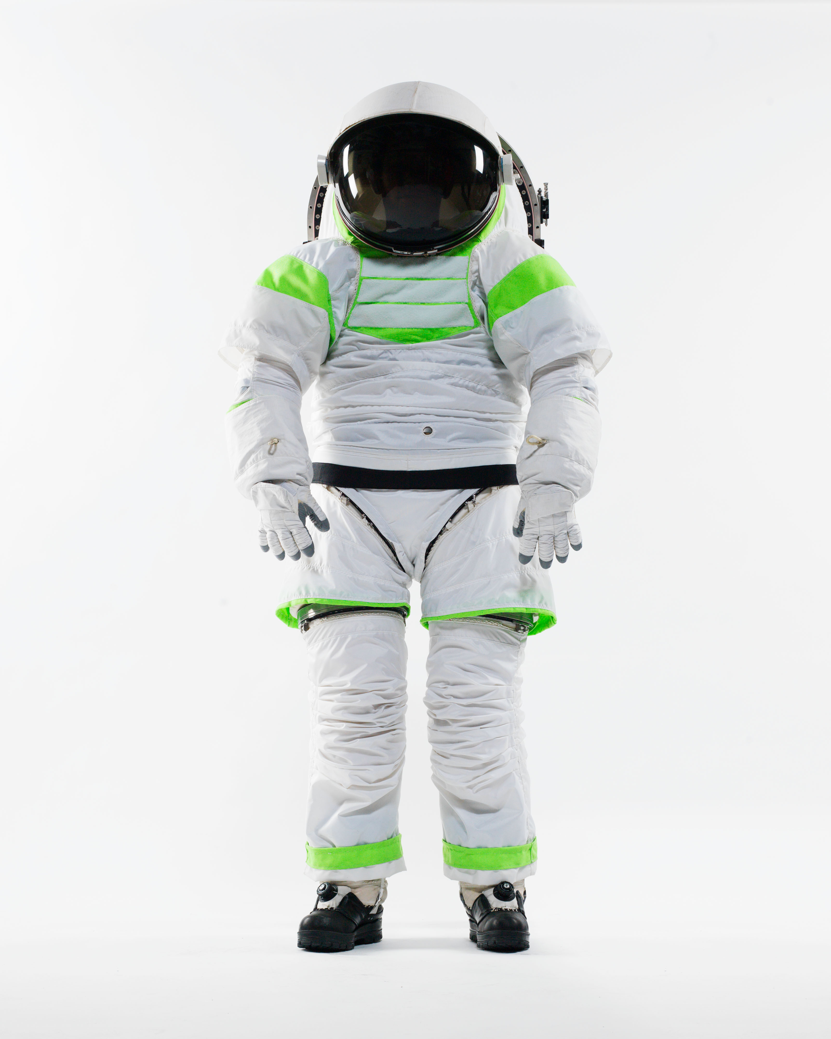 JSC2012-E-237800_ALT (7 Nov. 2012) --- The Z-1 is NASA’s next generation spacesuit, a prototype of which is pictured at the Johnson Space Center. Planned for use by astronauts as they travel to new deep-space locations, the next generation suit will incorporate a number of technology advances to shorten preparation time, improve safety and boost astronaut capabilities during spacewalks and surface activities.